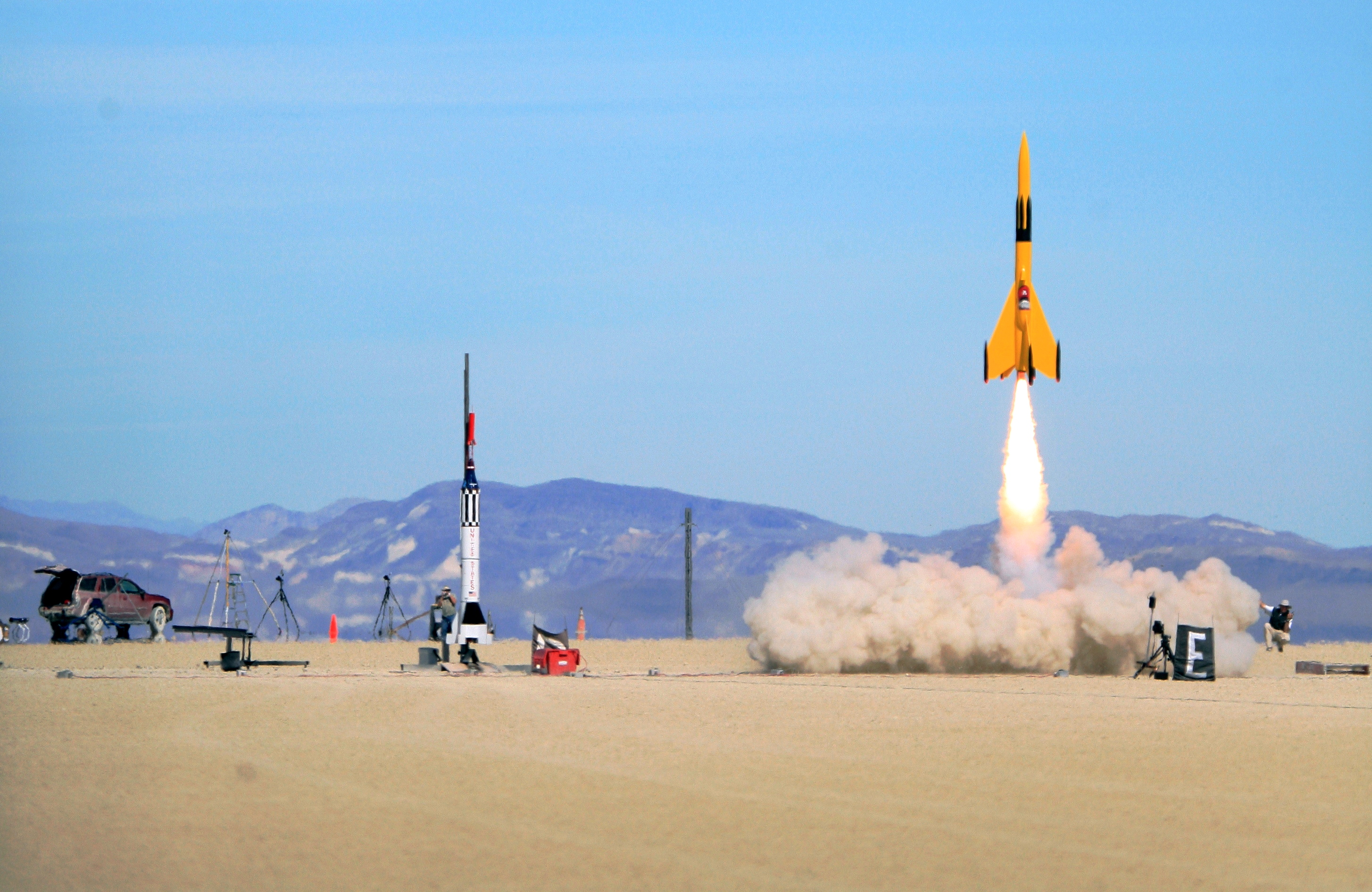 Mercury Joe was a little slow off the pad, but ripped though the air as the yellow bird migrated South. The remote camera on tripod at Pad E gives you a sense of scale. Jamie Clay is an expert in video rocketry. The rocket is bristling with cameras. There is even one inside the capsule, giving the weightless perspective of Mercury Joe at apogee (with a floating yellow M&M).